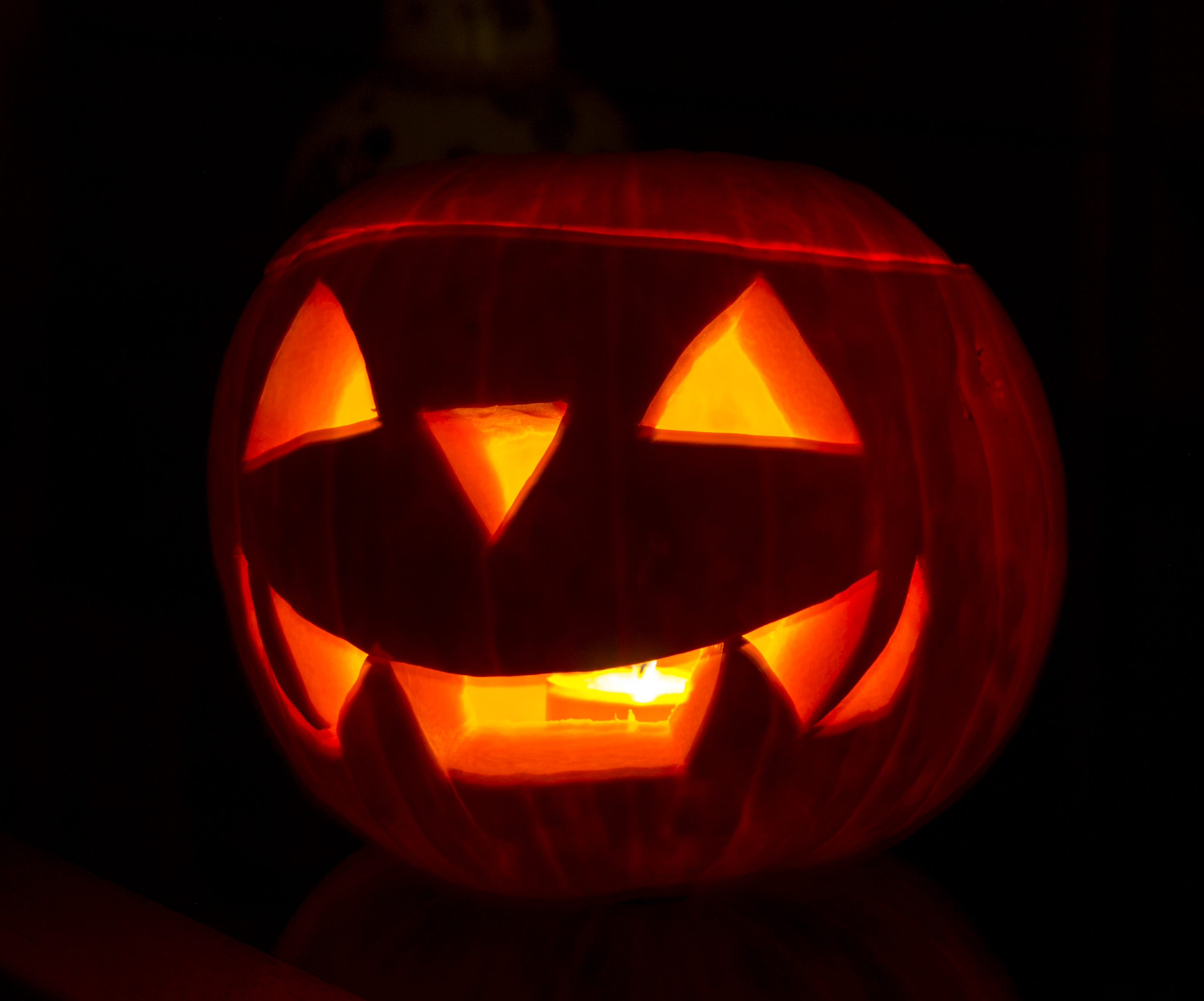 Halloween Jack-o'-lantern.